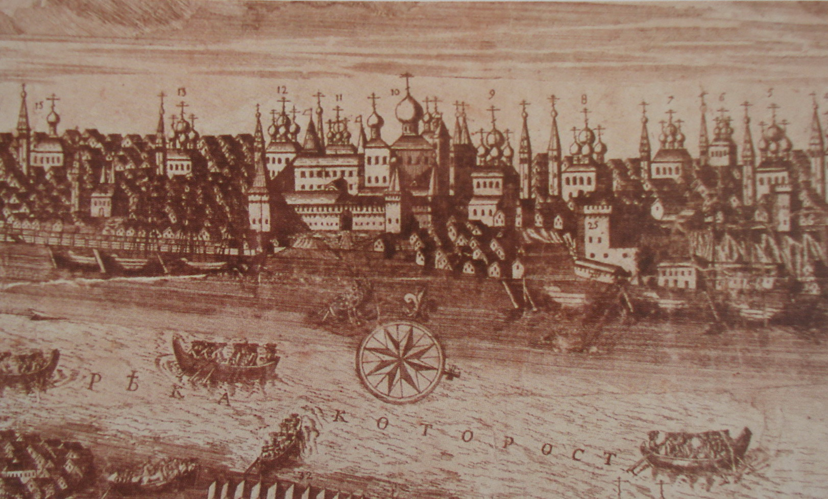 Spaso-Preobrazhensky Monastery (Yaroslavl), 1731